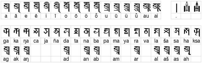 Mongolian language symbols of the Soyombo script.